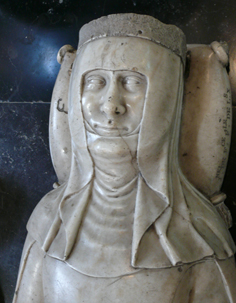 Effigy of Joan II of Navarre (1311–1349) Queen of Navarre; daughter of Louis X and Marguerite of Burgundy; wife of Philip, count of Evreux. Saint-Denis Basilica royal necropolis.